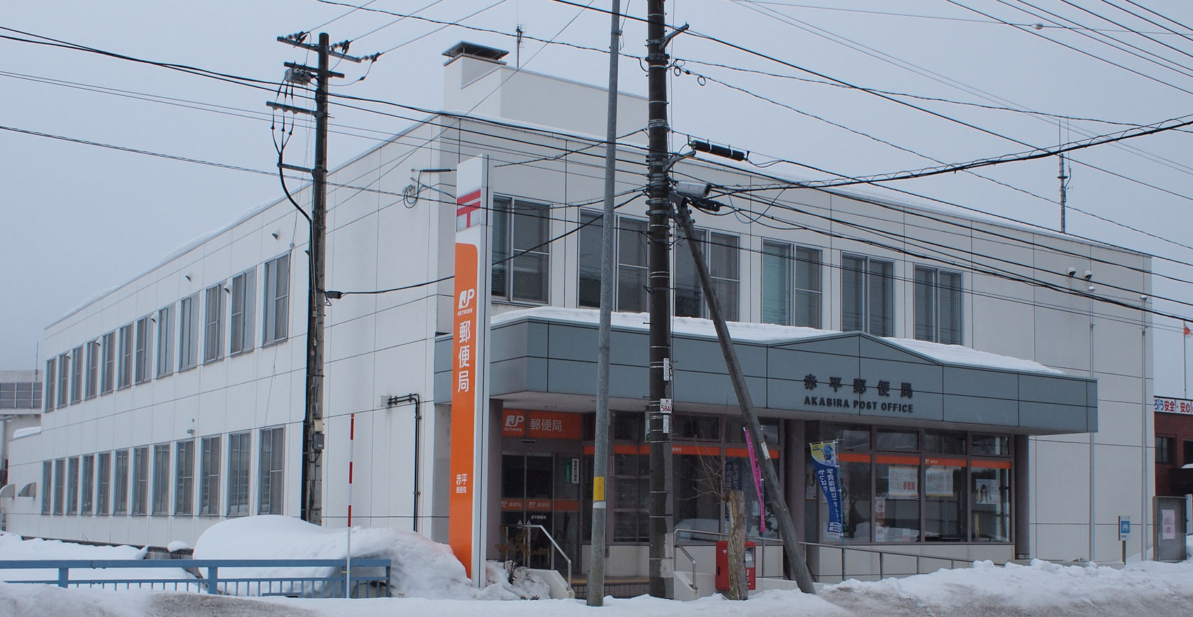 Akabira post office, Akabira, Hokkaido, Japan